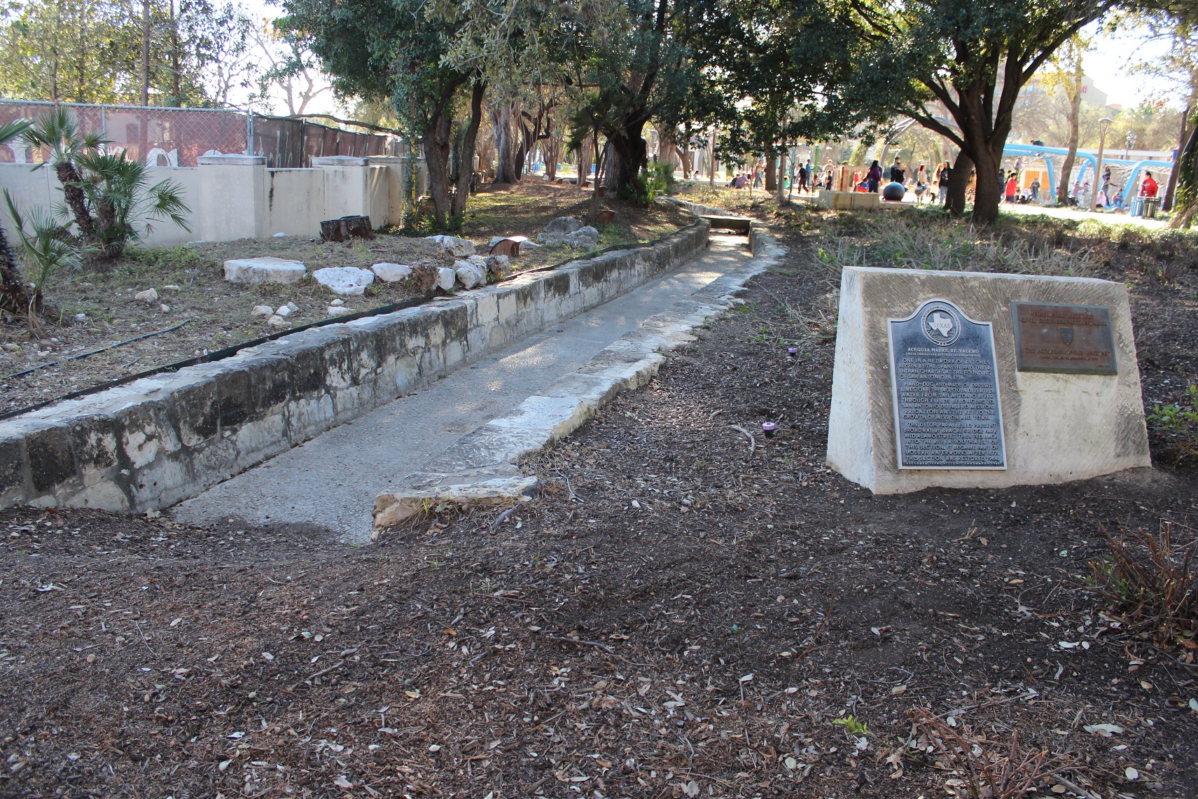 Acequia Madre de Valero (Main Irrigation Ditch of Valero Mission). One in a network of ditches begun by the Spanish and their Indian charges at the founding of San Antonio in 1718. Hand-dug and made of dressed limestone, the acequia diverted water from San Antonio River through fields belonging to San Antonio de Valero Mission. Irrigation was the key to the growth of mission and town. The ditch paralleled present Broadway by Brackenridge Park and Alamo Street, then fed back into the river southwest of this section. It became part of modern waterworks after 1877. This section was restored, 1968. #78